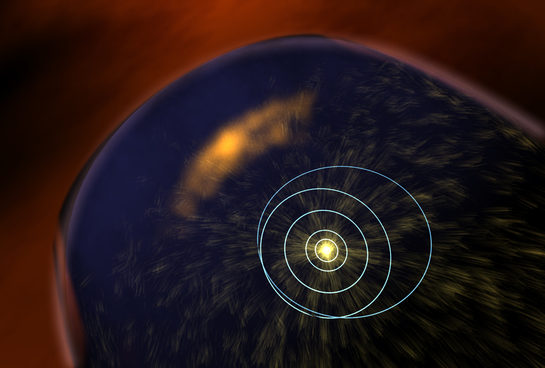 Illustration of a coronal mass ejection (CME) moving past the orbit of Pluto, into the outer solar system and towards the heliopause (the boundary between red and blue here).